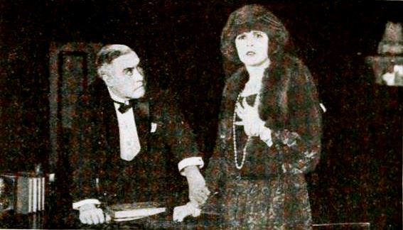 Still from the American film The Woman He Married (1922) with Anita Stewart, on page 55 of the July 1922 Photoplay.